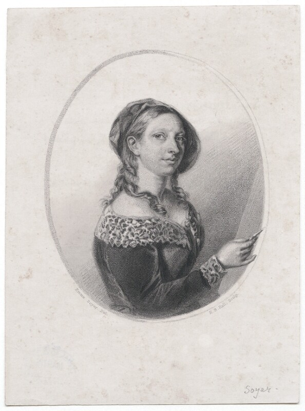 Elizabeth Emma Soyer by Henry Bryan Hall. Stipple and line engraving.